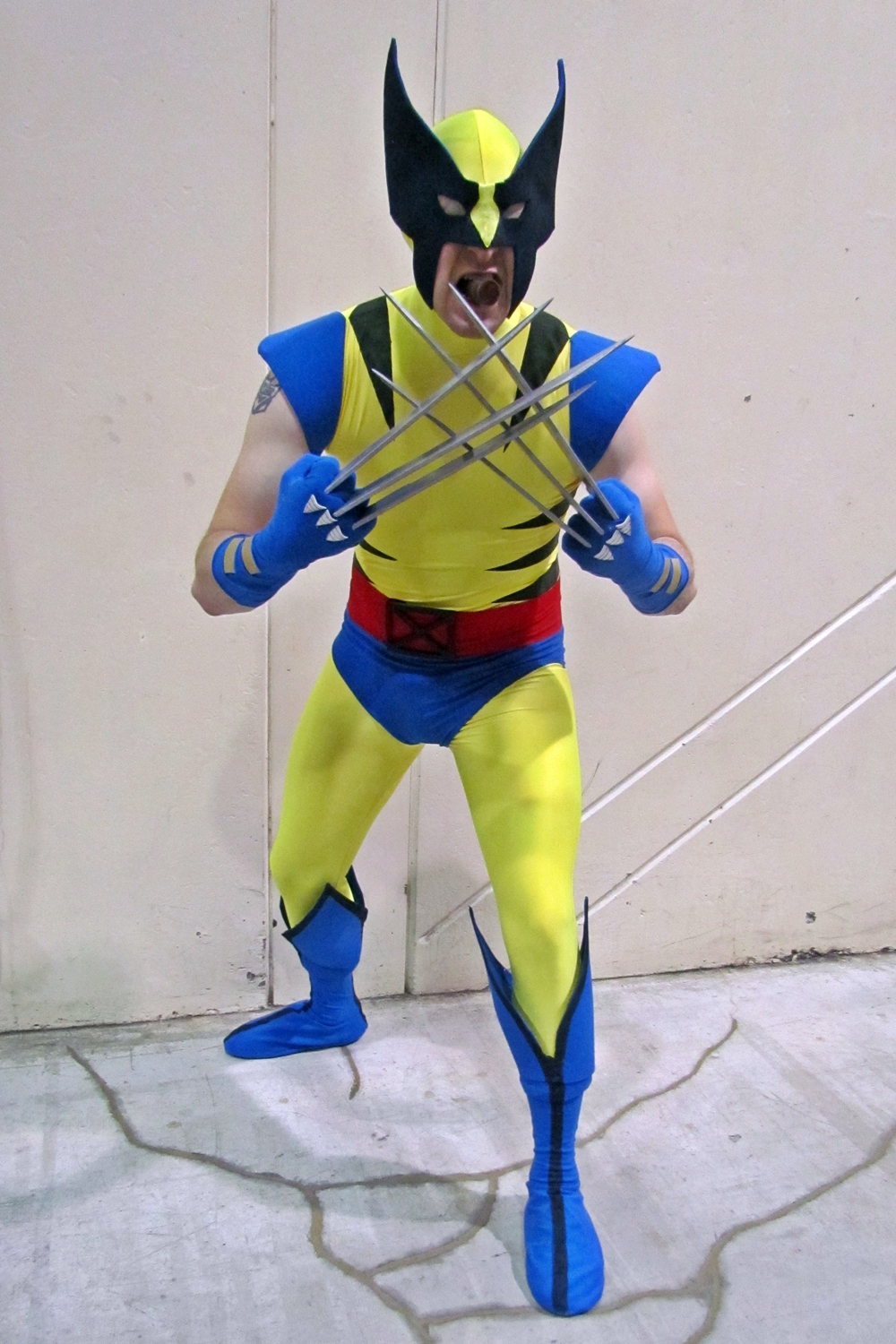 Wolverine is a fictional character, a superhero that appears in comic books published by Marvel Comics. The character first appeared in the last panel of The Incredible Hulk #180 (his first full appearance is in issue #181, November 1974) and was created by writer Len Wein and Marvel art director John Romita, Sr. who designed the character, and was first drawn for publication by Herb Trimpe. Photo taken at the Calgary Comic and Entertainment Expo, BMO Centre, Calgary, Alberta, Canada.